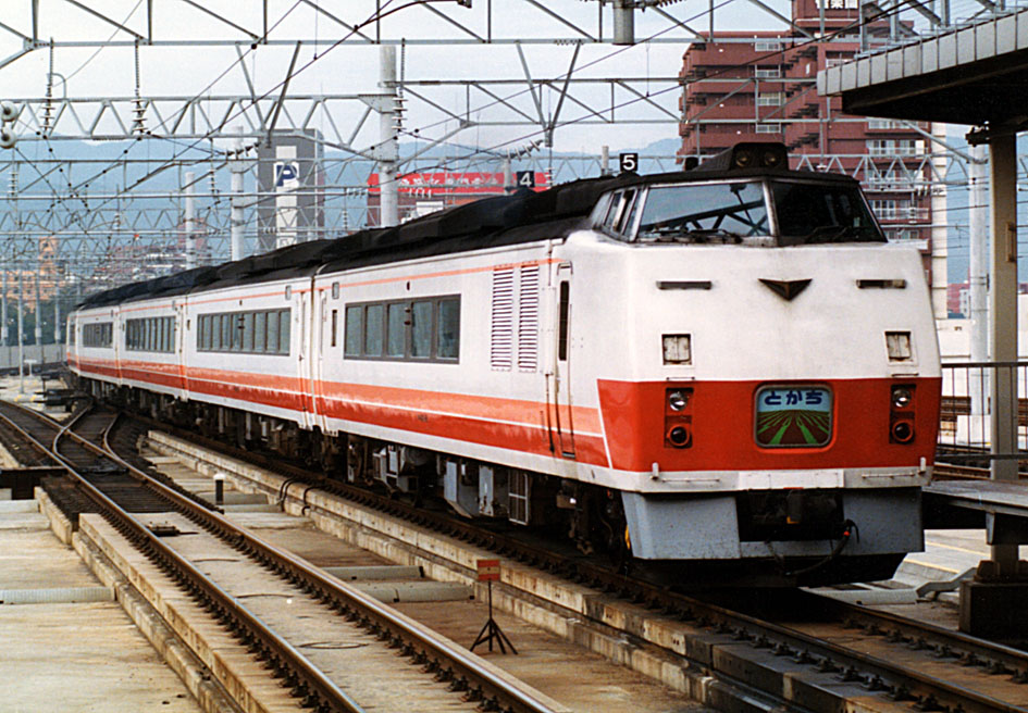 JR Hokkaido KiHa 183 series DMU on a Tokachi limited express service at Sapporo Station